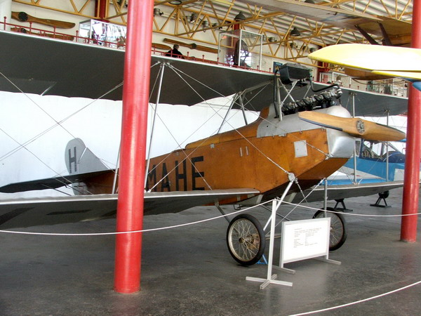 Hansa-Brandenburg B.I exhibited at the Budapest Aviation Museum